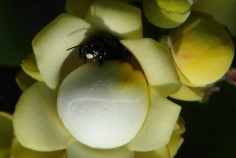 Epicharis conica male: Approach to flowers of Brazil nut (Bertholletia excelsa) by distinct bee species in a commercial cultivation in the county of Itacoatiara, state of Amazonas, Brazil, 2007